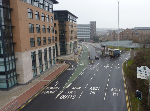 Directions for leaving Sheffield and going swimming View from bridge carrying supertram and pedestrians over Park Square roundabout; signs to M1, A61, Ponds Forge for a swim and Victoria Quays to moor your narrow boat